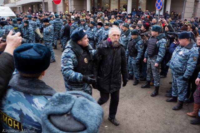 February 21, 2014 at Zamoskvorechye Court in Moscow Academician Vladimir Vasiliev, the president of the Moscow Mathematical Society, was illegally detained by police during the sentencing hearing of protesters in the "Bolotnoe" case.